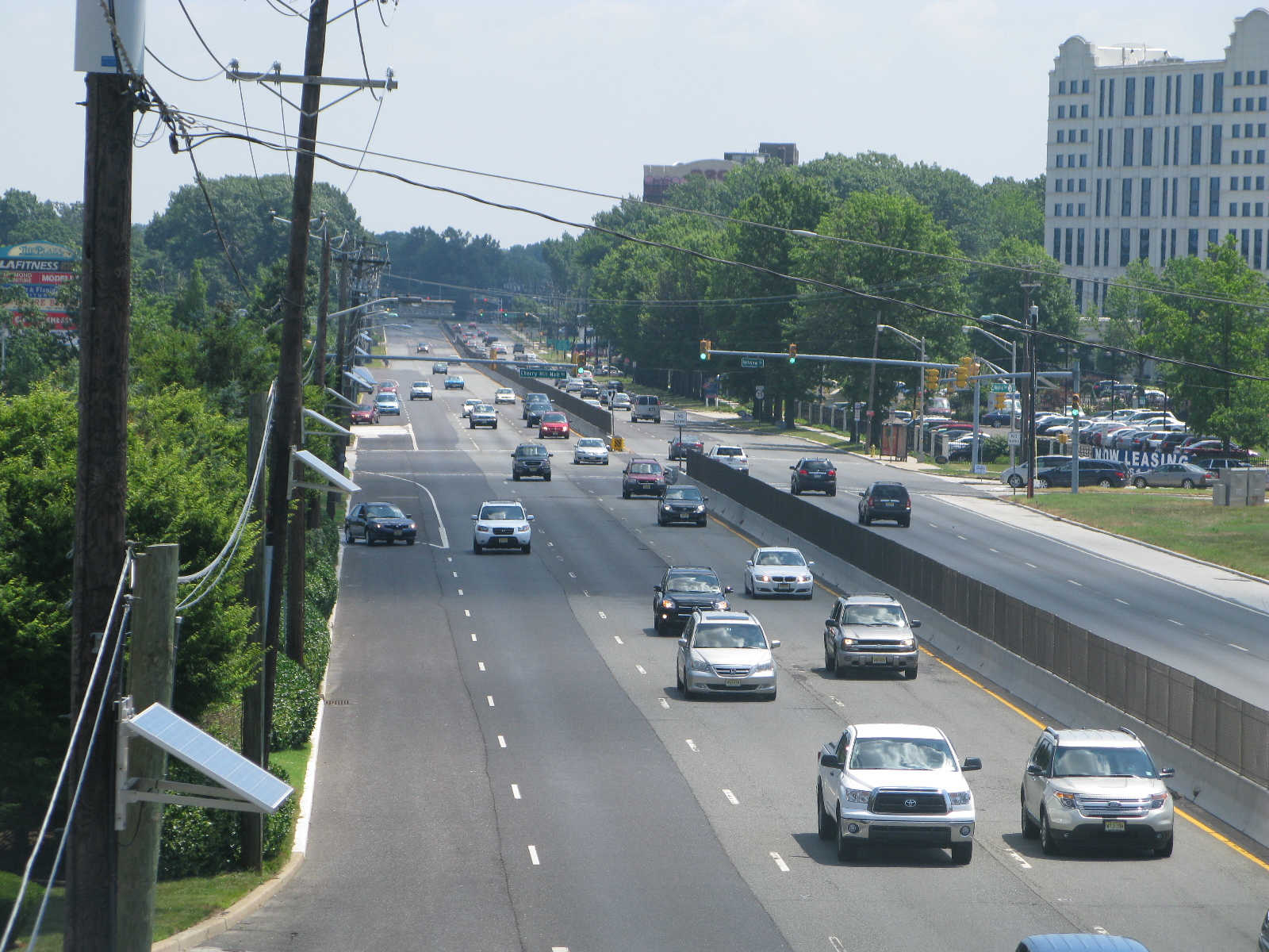 Route 38 in Cherry Hill, New Jersey – facing east